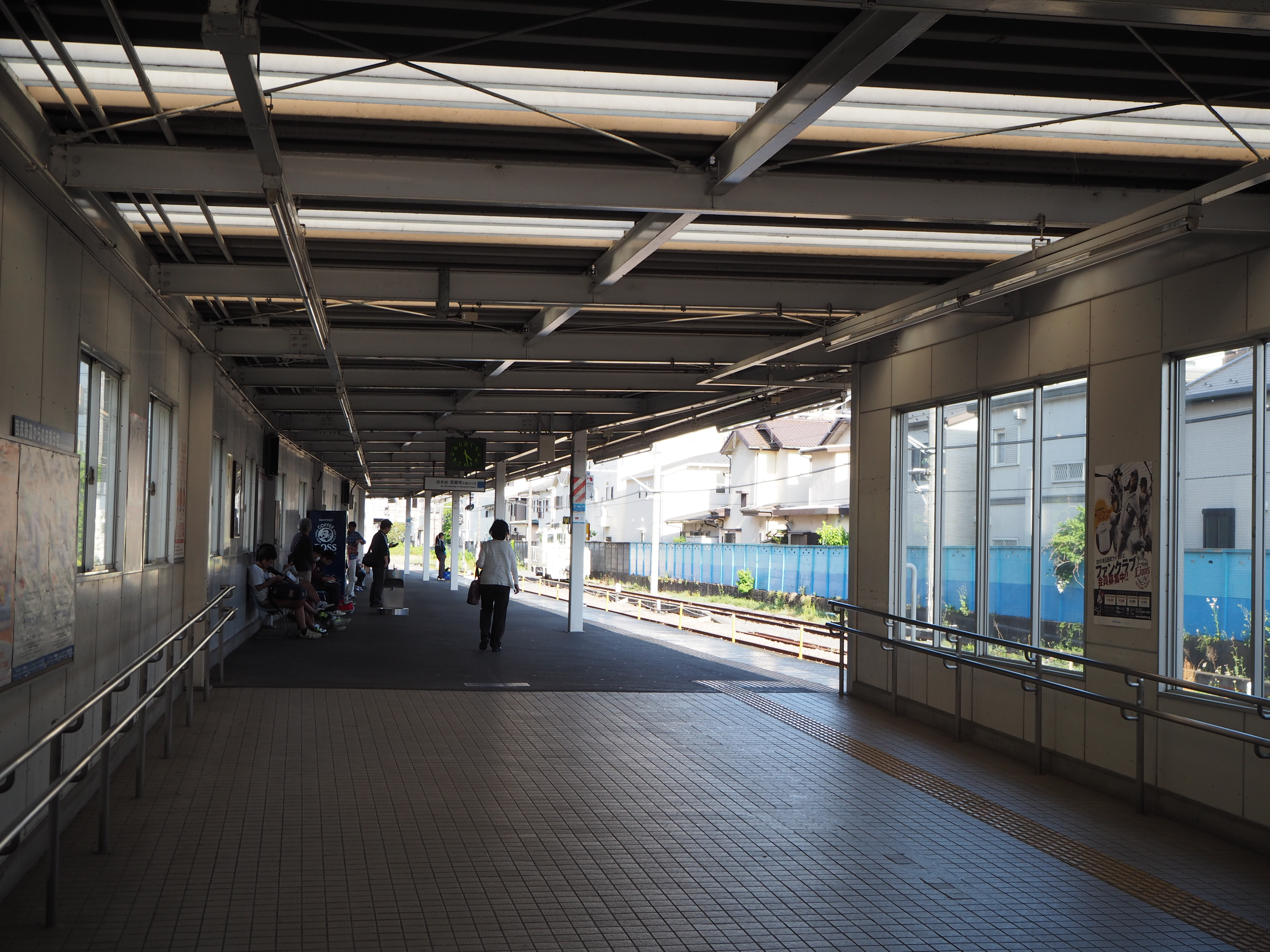 Platform of Koremasa Station